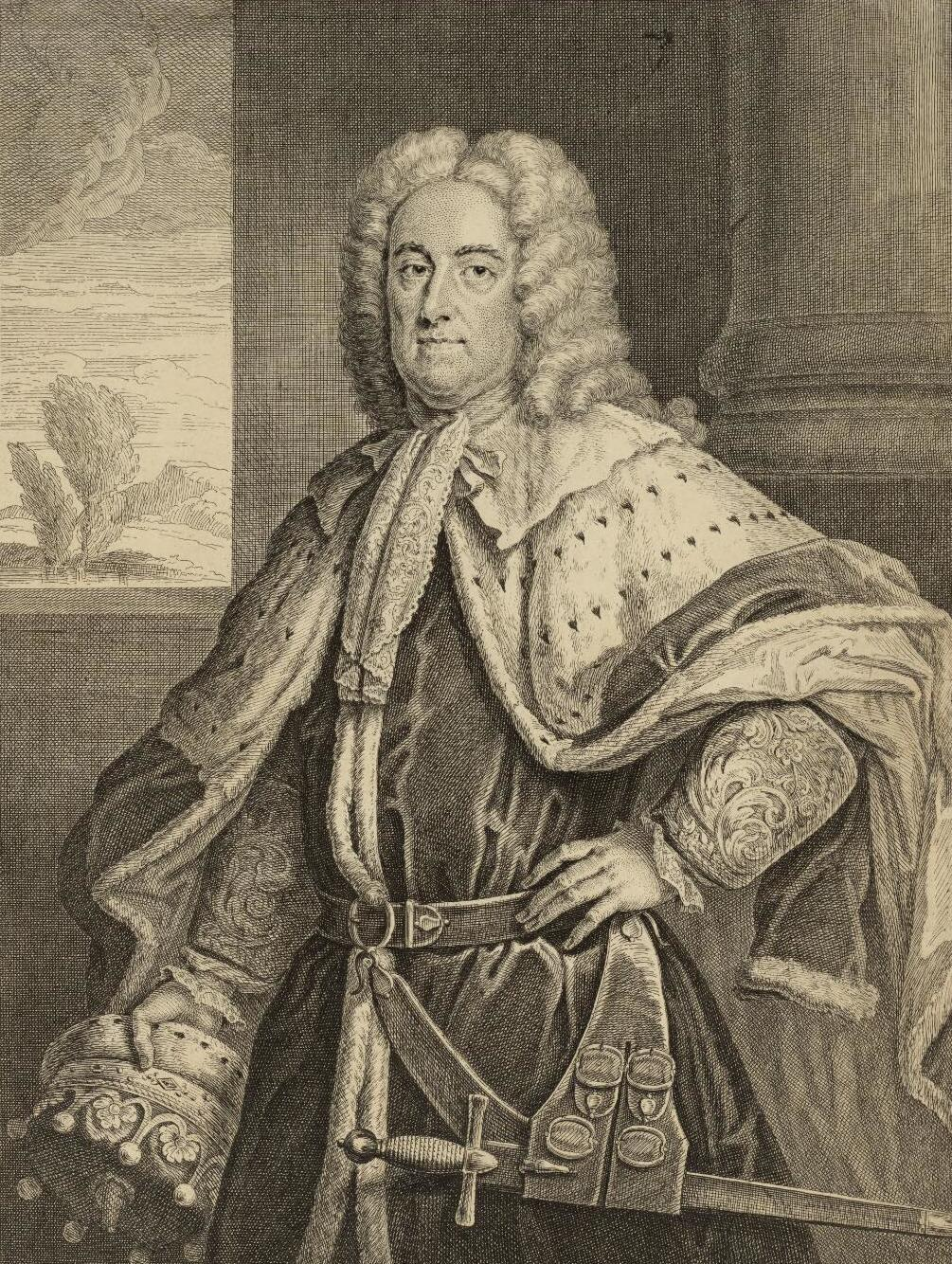 A portrait from the Welsh Portrait Collection at the National Library of Wales. Depicted person: James Stanley, 10th Earl of Derby – English politician